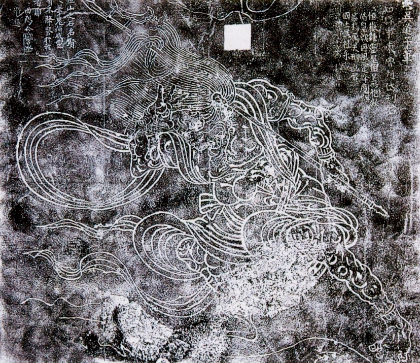 Attributed_to_Wu_Daozi._Flying_Demon._Rubbing_of_a_stone_engraving_in_the_Northern_Yue_Temple_in_Quyang,_Hebei_Province._97,5_cm_high. Ming copy.